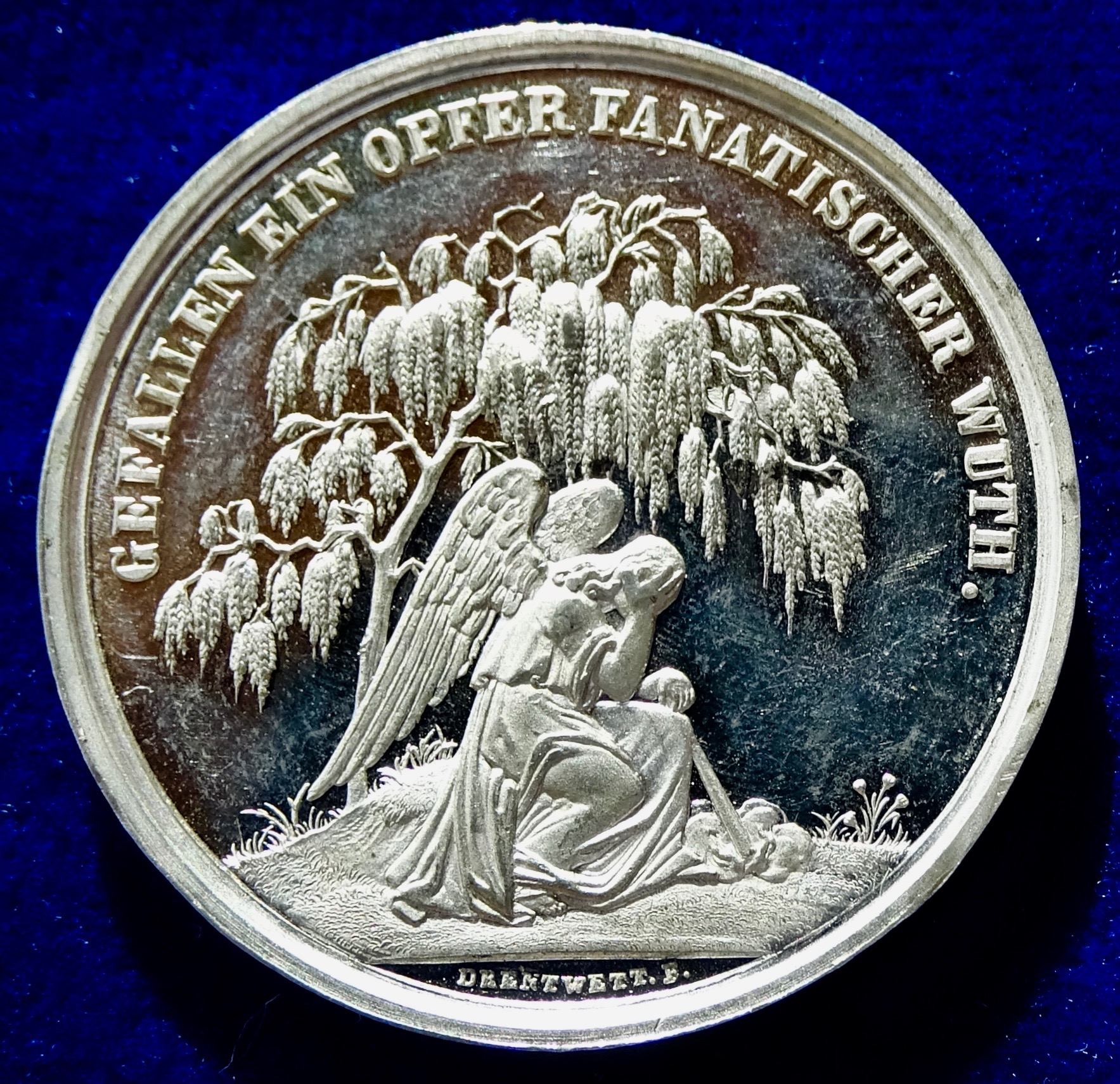 Frankfurt am Main, German Revolution Medal 1848 General Hans von Auerswald Pewter, d. = 37 mm. Hans Adolf Erdmann von Auerswald, Prussian general and politician, 1792 Faulen, West Prussia, today Poland - 1848 Frankfurt, killed by revolutionary radicals. Portrait l., 2 lines around: "GENERAL V. AUERSWALD GEBOREN 1792. ERM.D.18.SEPT. 1848."/ A mourning angel sitting r. under a weeping willow, curved above: "GEFALLEN EIN OPFER FANATISCHER WUTH.". J.u.F. 1159. Medallist: (Gottfried) Drentwett, 1817 - 1871 Augaburg Condition: Very nice EXTREMELY FINE+.